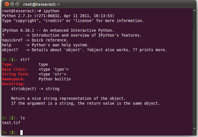 The IPython interactive shell running in gnome-terminal on Ubuntu 11.04, showcasing the introspection and system shell command features